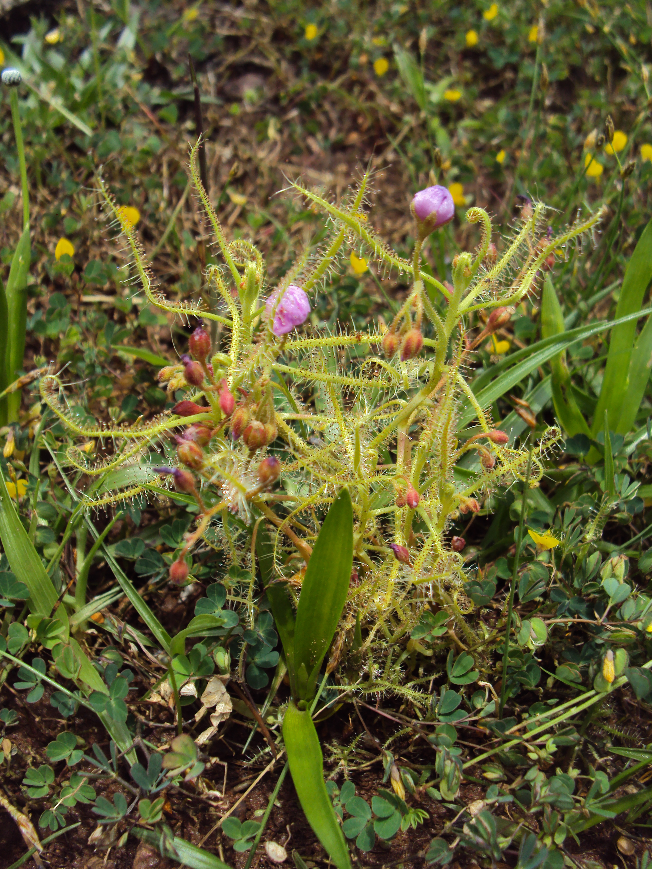 Drosera indica